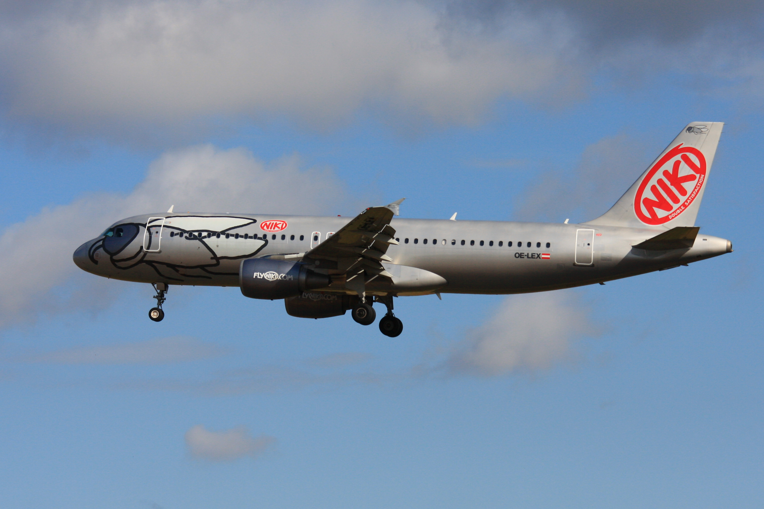 An Airbis A320 of Niki landing at Frankfurt Airport